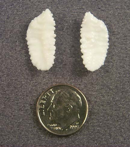 Two otoliths from a Pacific Cod (Gadus macrocephalus). Photographed by user Edgewise, 8/2000 Linked in article: Otolith